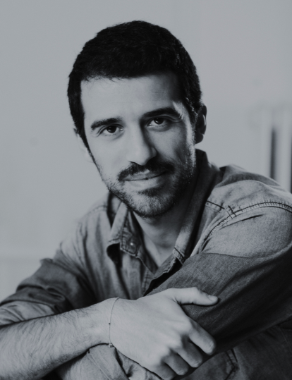 A picture of Jacopo Cullin